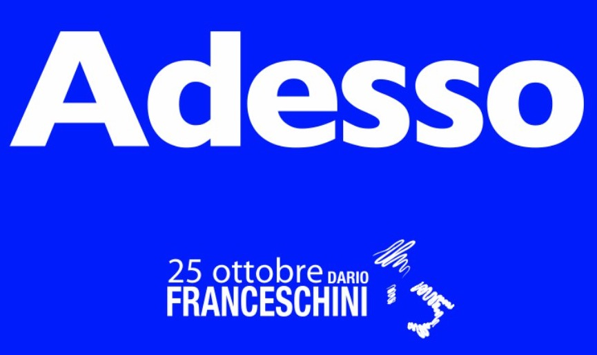 Adesso Franceschini logo.